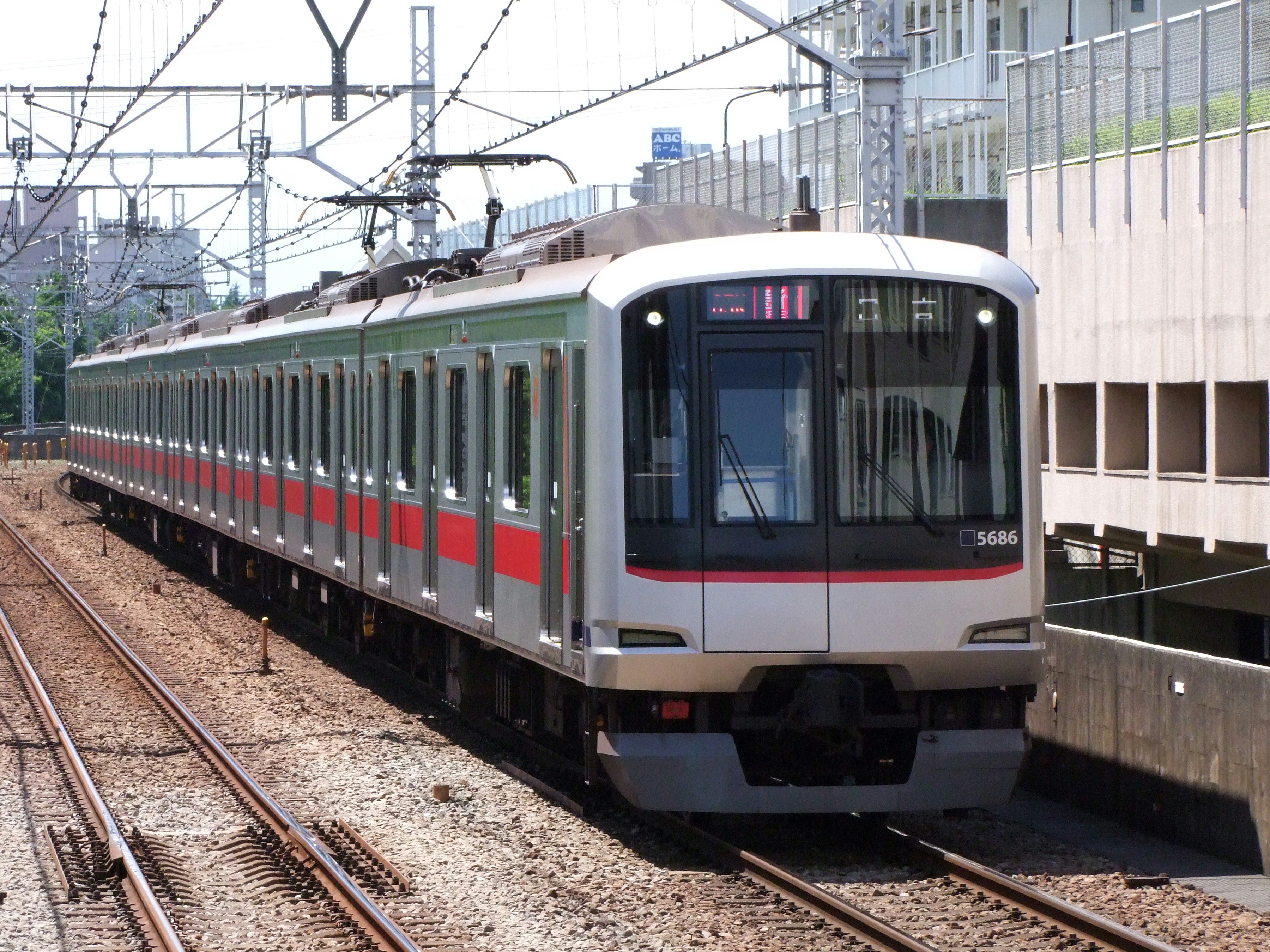 Tōkyū 5000 series (II), 5080 series Kuha5686, at Nishidai Station.